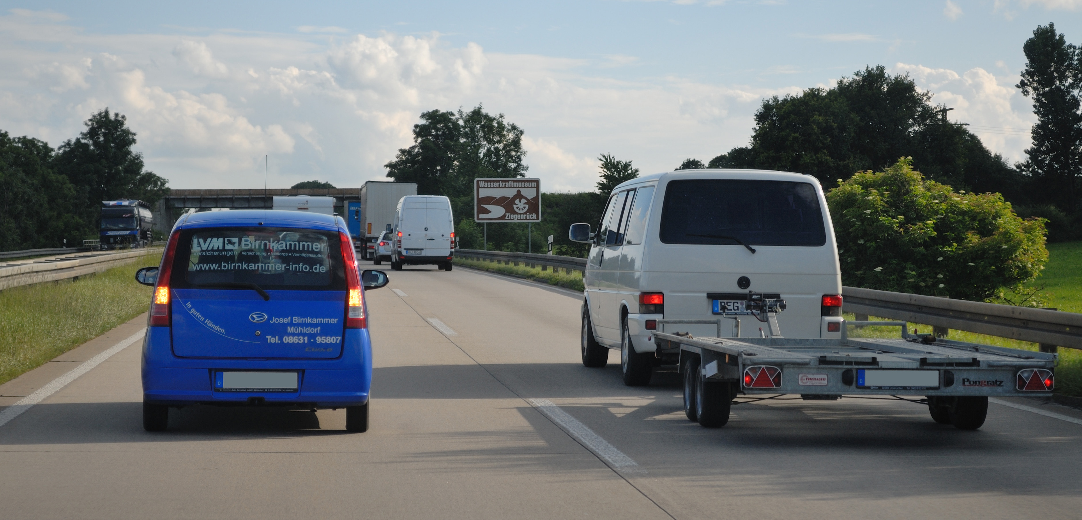 Road sign for the hydropower museum in Ziegenrück. Road shot from A 9.